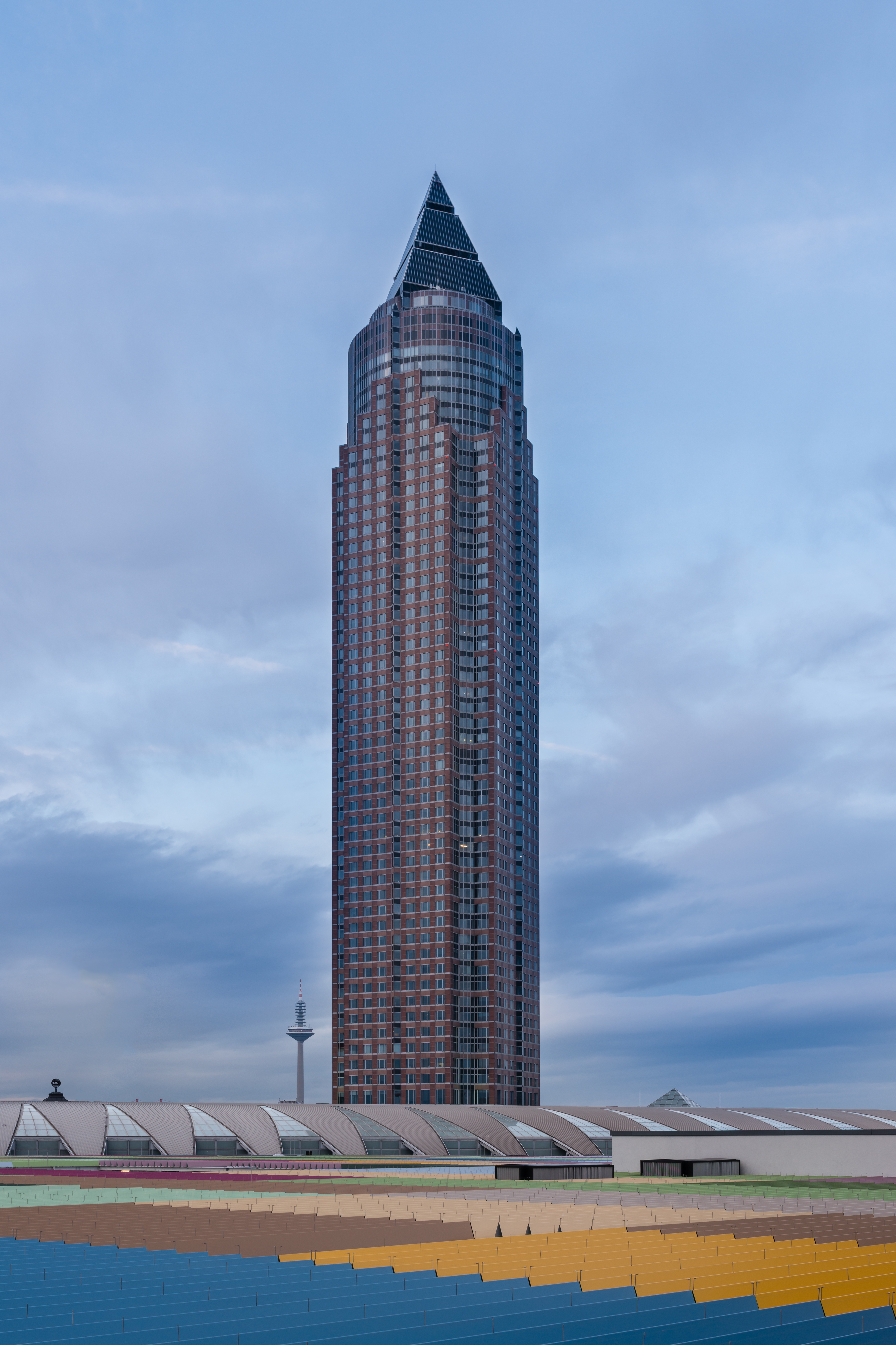 Fair Trade Tower, Frankfurt, Hesse, Germany.